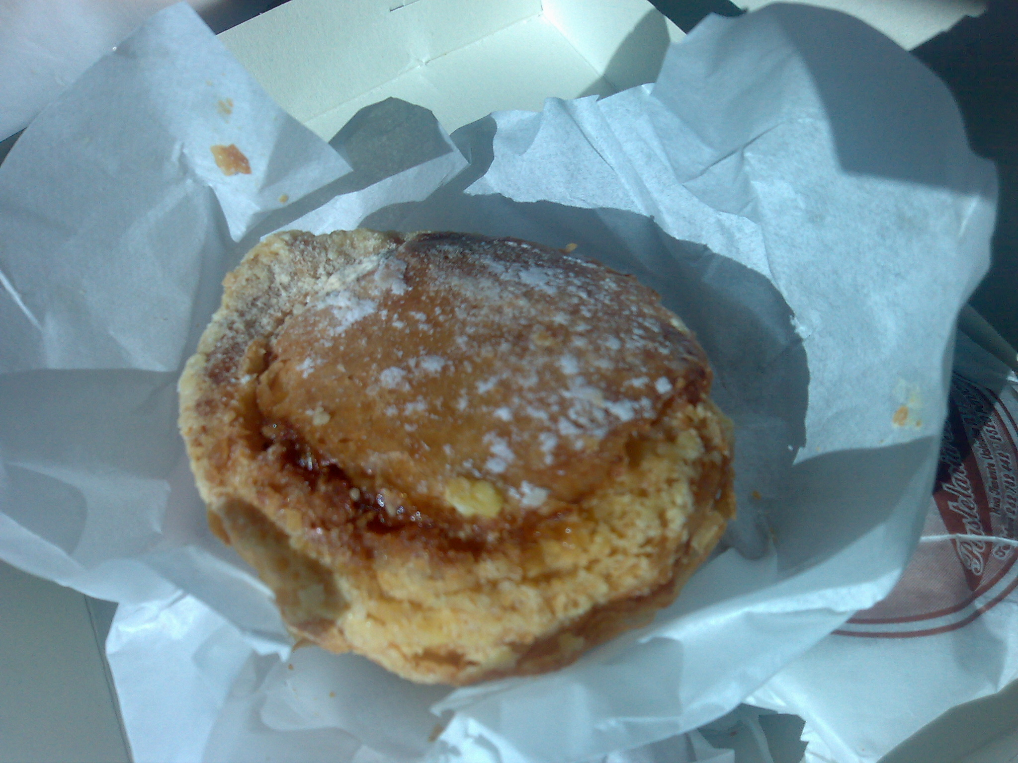 Amigo de Peniche, a typical sweet from Peniche, Portugal.